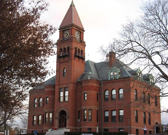 The Pinkerton Building at Pinkerton Academy. Also commonly referred to as the Chapel.